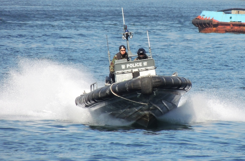 HKPF - Divisional Fast Patrol Craft